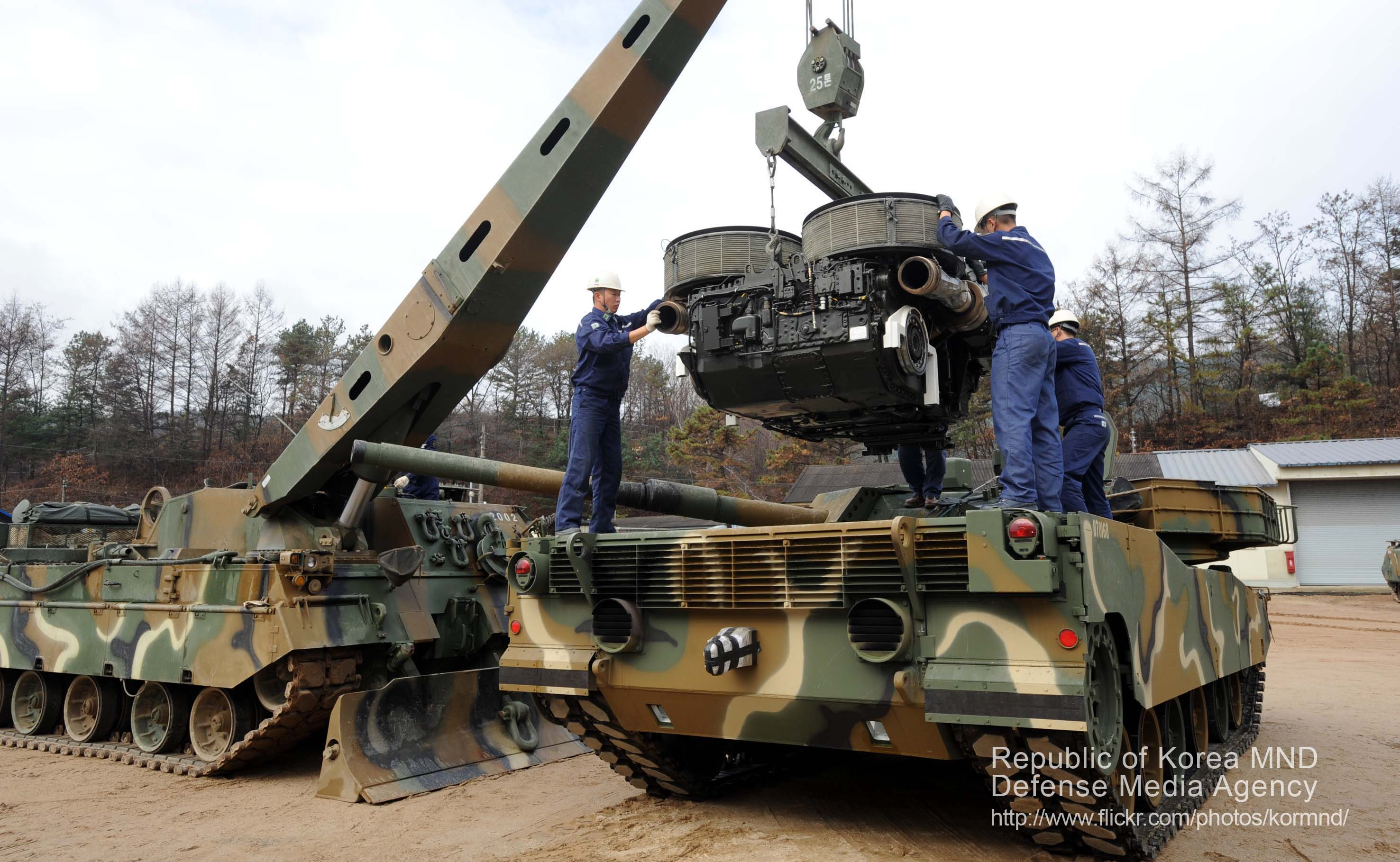 2011 국방화보 Rep. of Korea, Defense Photo Magazine 육군11사단 정비대대 장병들이 K-1전차를 정비하고있다.